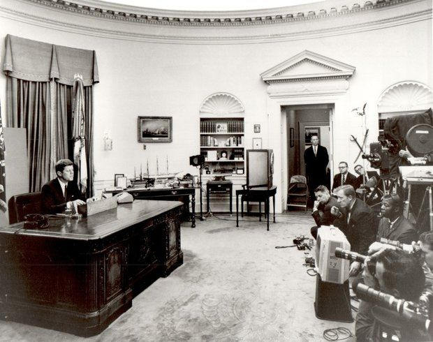 John F. Kennedy speaking before camera on civil rights